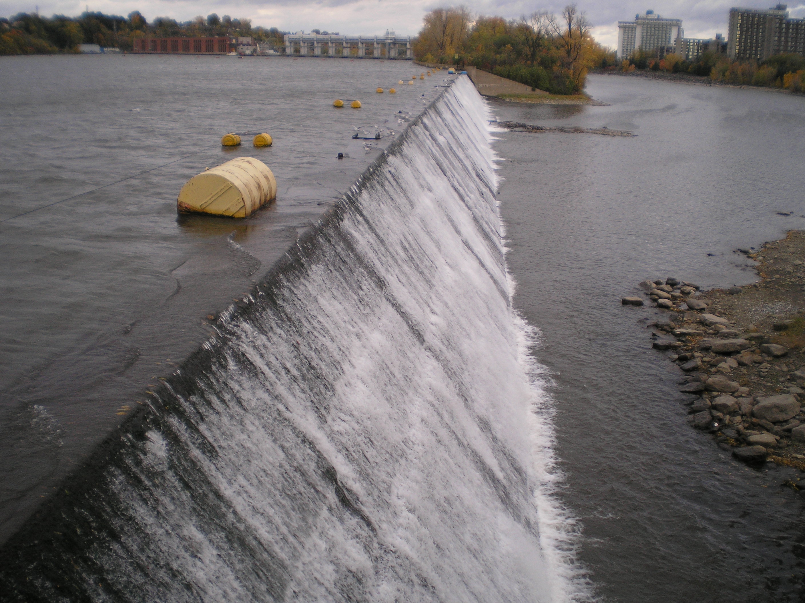 The main spillway for the Rivière des Prairies dam in the north end of Montreal.